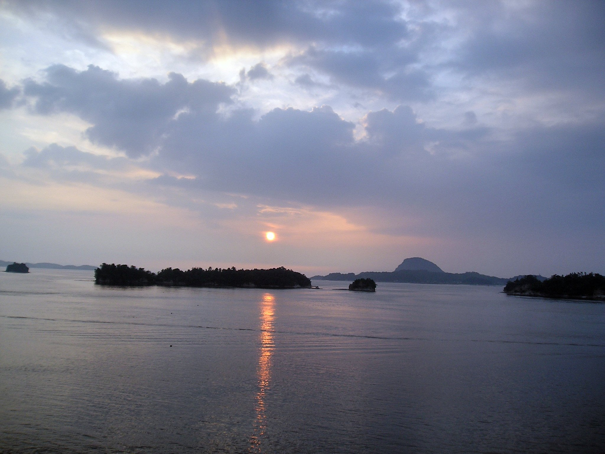 A view of sunset from the Five Bridges of Amakusa, Kumamoto, Japan. Taken on 02 August 2009.